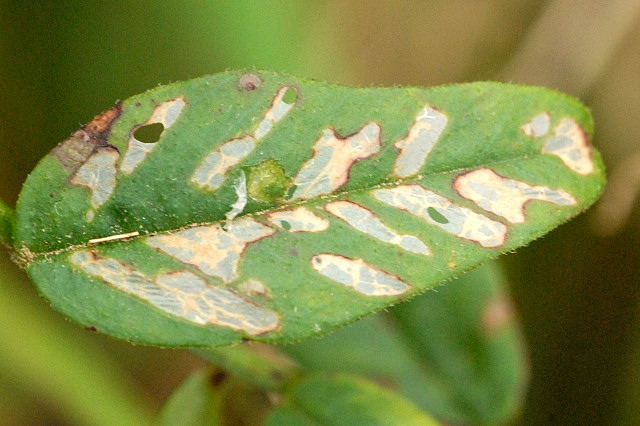 Agromyza vicifoliae from Commanster, Belgian High Ardennes .